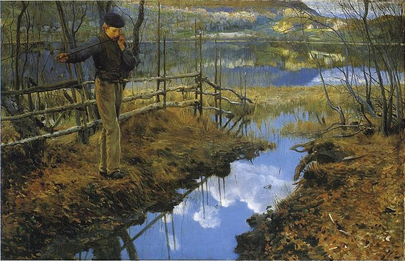 The Willow flute (Seljefløyten). Painting by Christian Skredsvig. Unknown private owner, the painting is deposited in Nasjonalgalleriet / Nasjonalmuseet for kunst, arkitektur og design